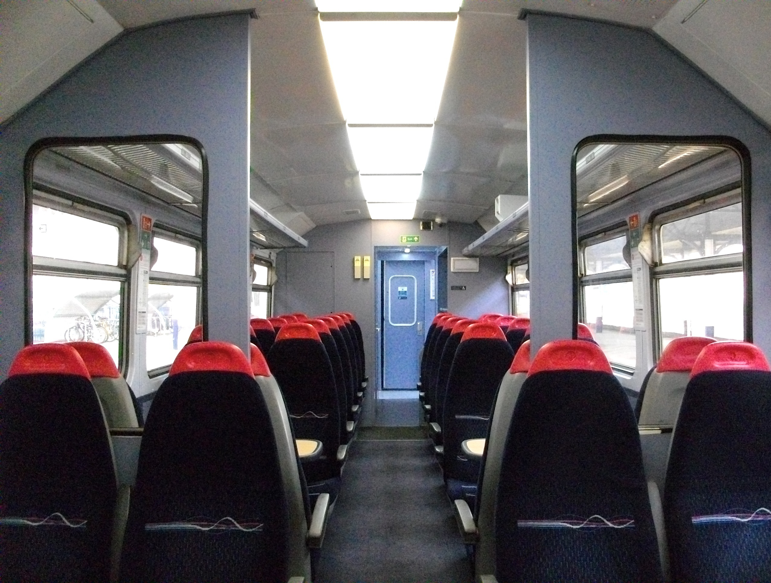 The refurbished interior of First Great Western 'Local Lines' Class 153 No. 153329